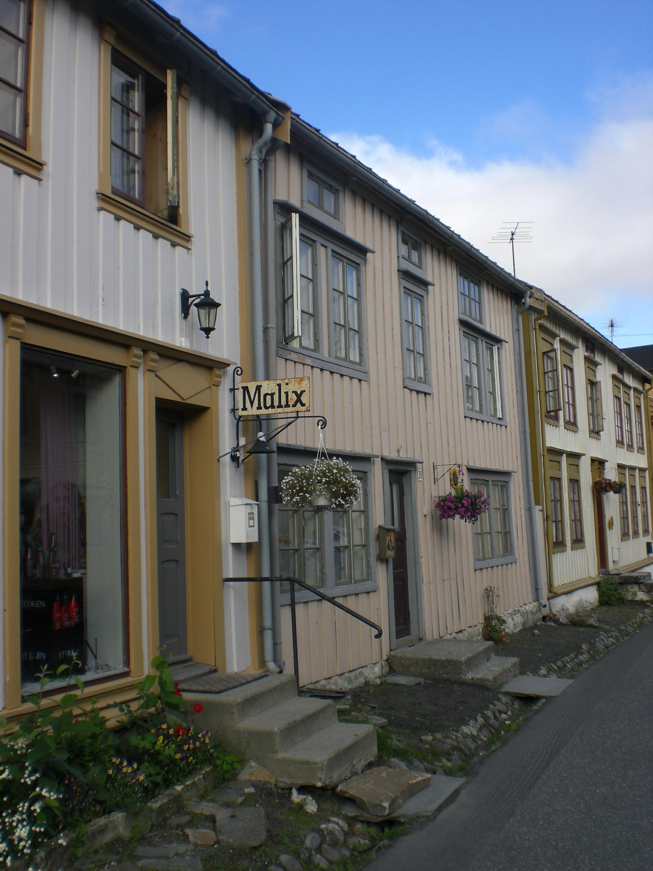 Sjøgata, Byflata in Mosjøen, Norway. Old buildings.